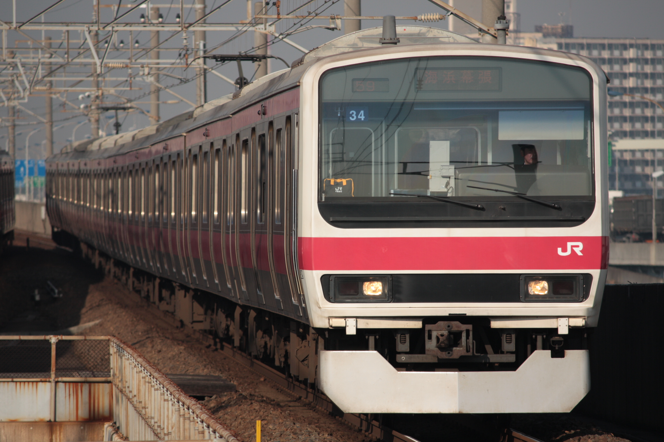 JR East 209-500 series EMU approaching Maihama Station on the Keiyo Line